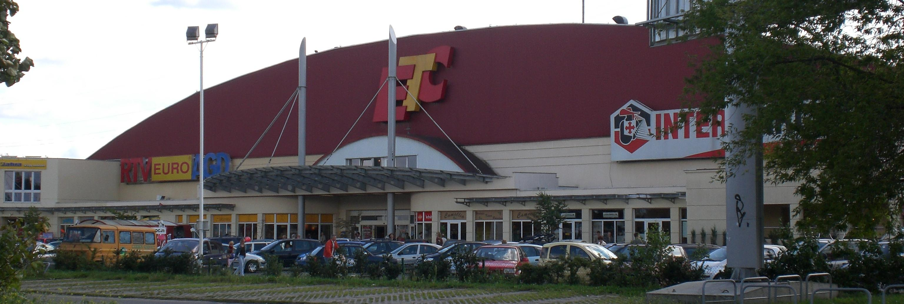 Shopping centre at former airport in Gdańsk Wrzeszcz